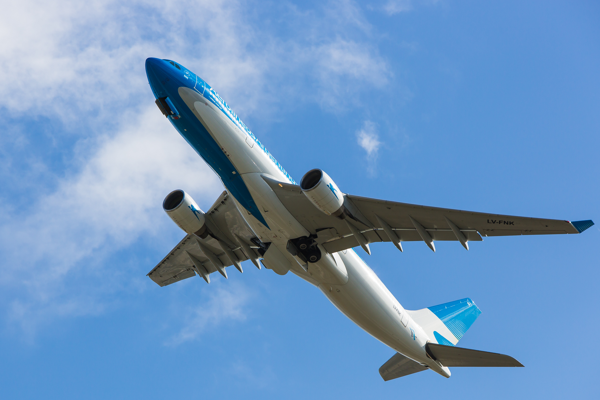 Serial number: 358 Type: 330-223 First flight date: 08/09/2000 Test registration: F-WWYO Engines: 2 x PW PW4168A